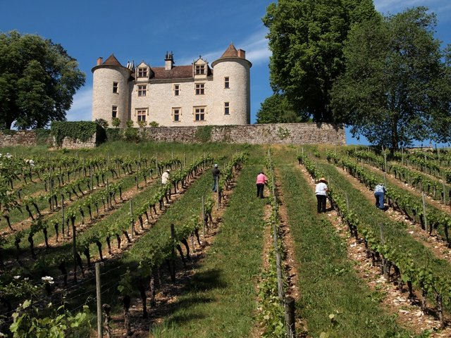 The vineyards of Chateau Lagrezette 46140 CAILLAC Vignoble du Cahors (Lot).